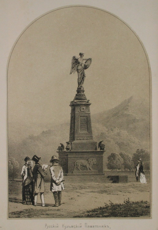 Old image of Monument for battle of Kulm 1813. Monument was build by Austria in honor of russian soldiers.